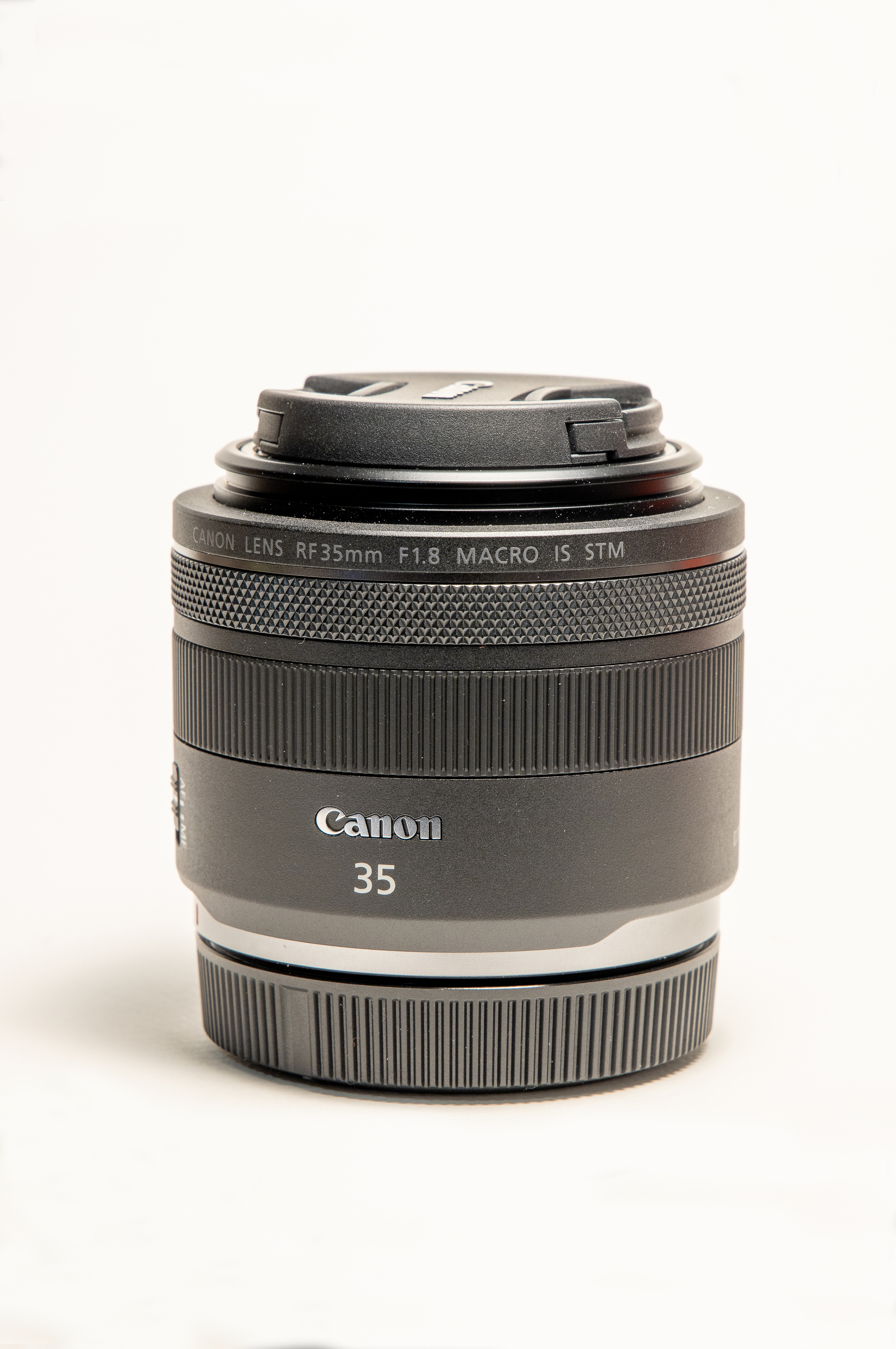 Canon RF 35 mm f1.8 MACRO IS STM lens on white background